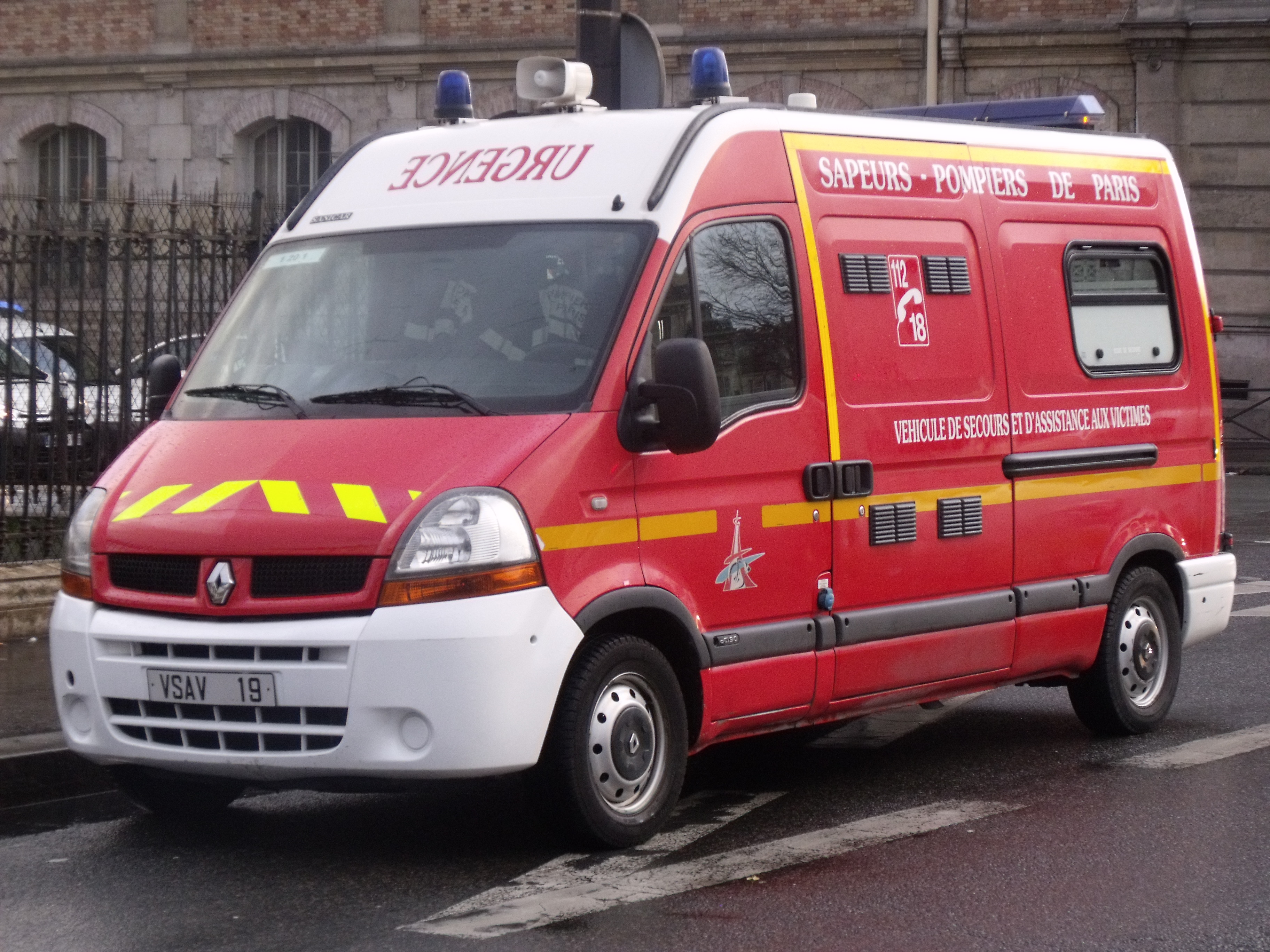 This light ambulance is seen here in Paris, near metro station of Rome, in december 2012.